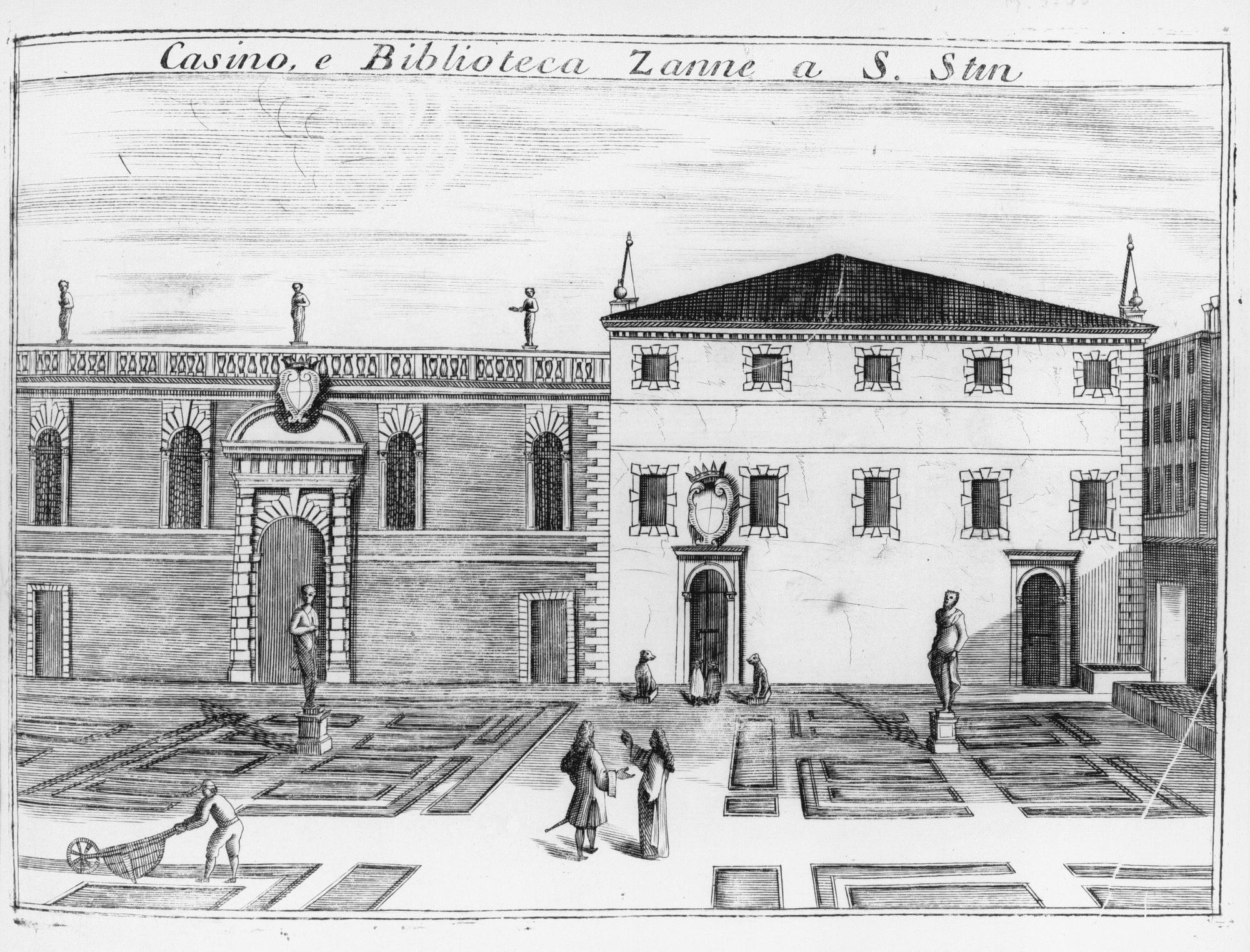 Casino and Zane library in San Stin, Venice